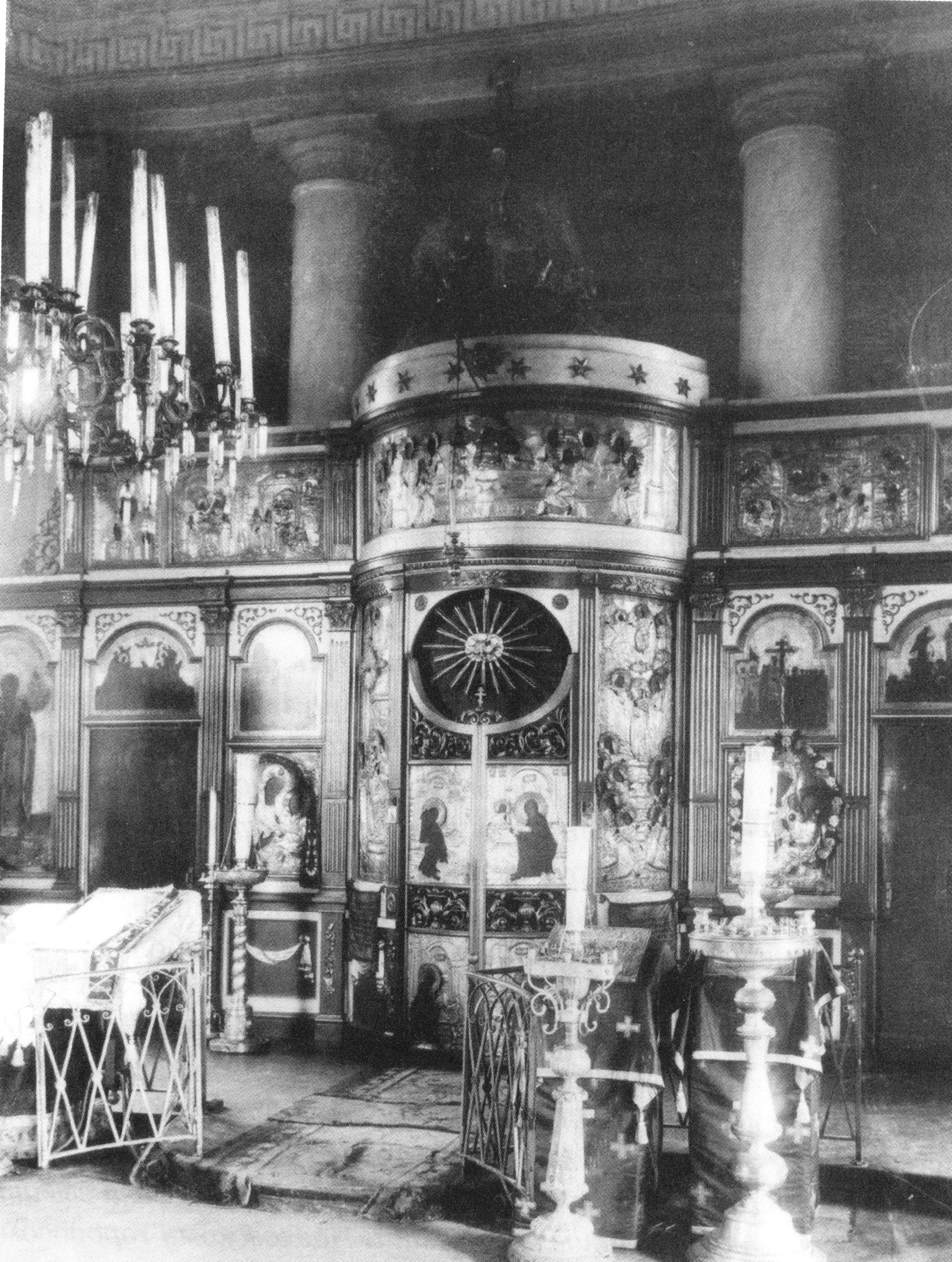 Ascension church in Feodorovskiy posad (interior)